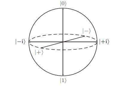 The six states spanning the Bloch sphere